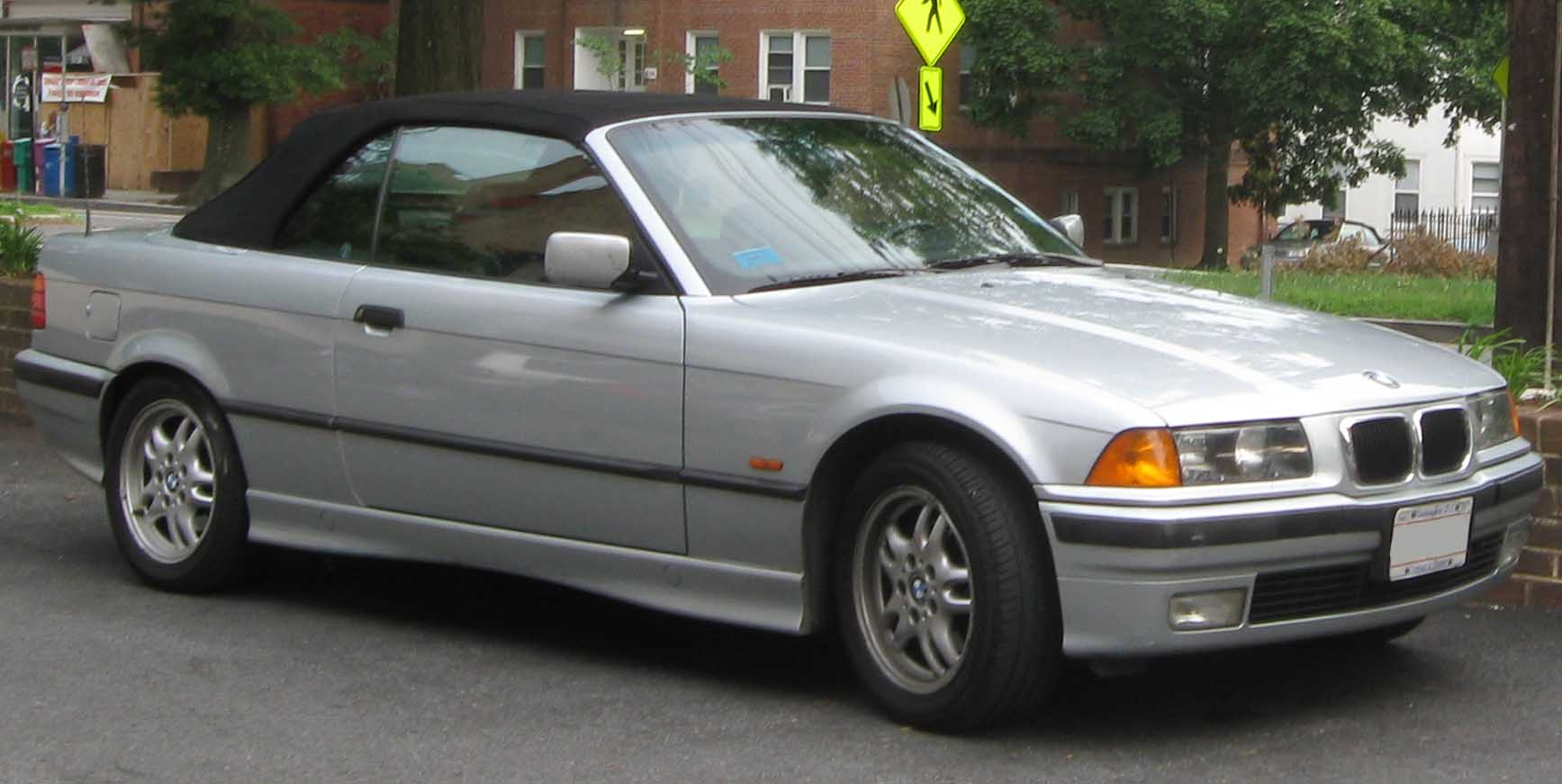 BMW 3-Series photographed in Washington, D.C., USA.